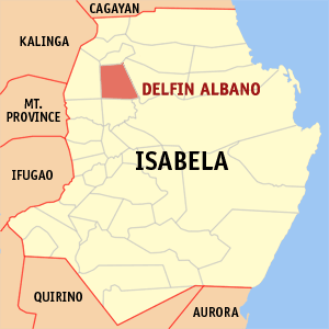 Map of Isabela showing the location of Delfin Albano